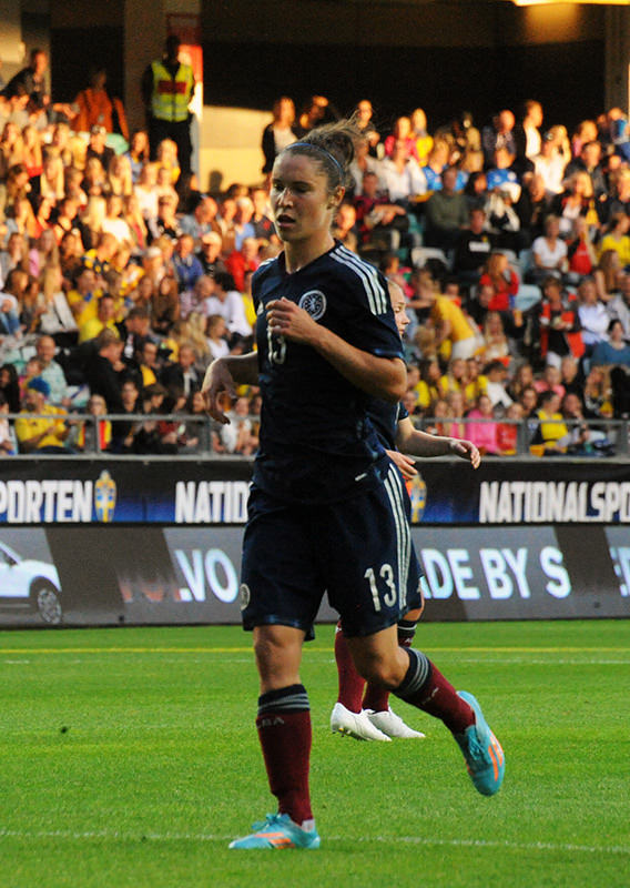 Jane Ross playing for Scotland